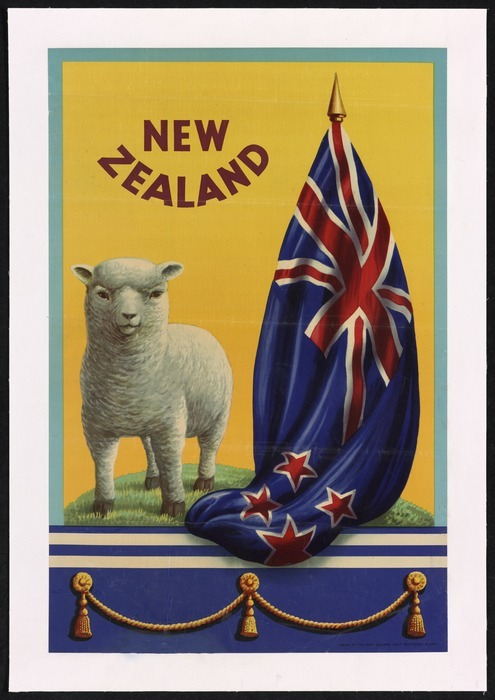 Poster shows an illustration of a woolly sheep standing beside a draped New Zealand flag, against a yellow background. Below, looped gold cord links three gold rosettes. Published by the New Zealand Meat Producers' Board between 1930 and 1940.